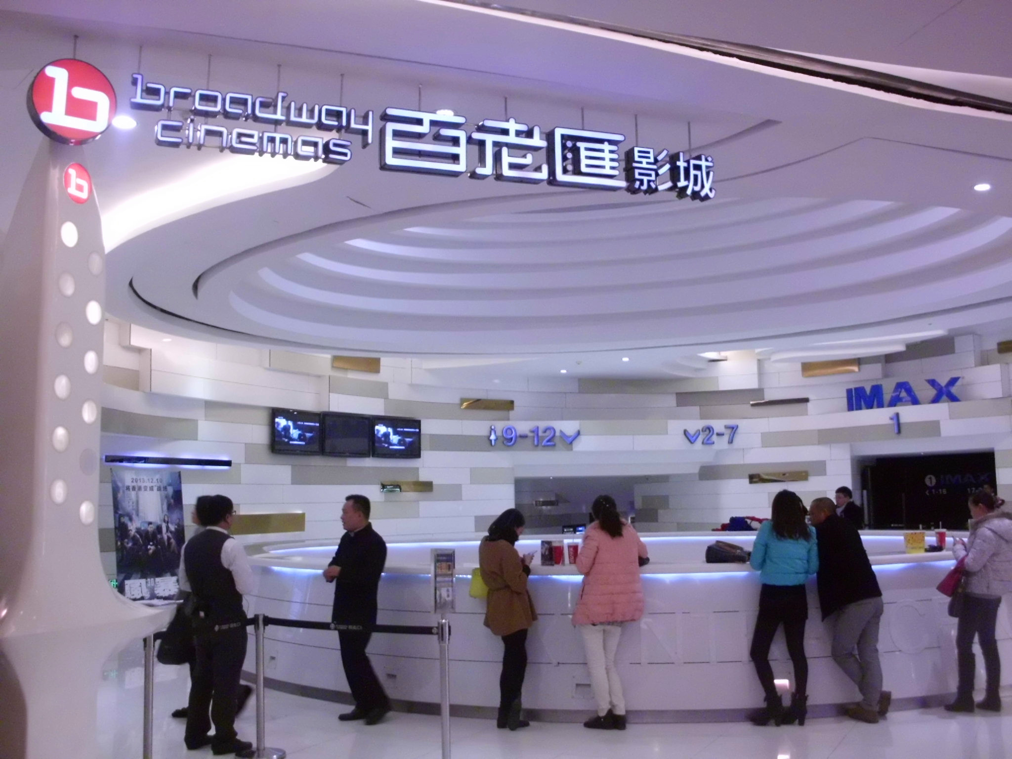 Hangzhou Broadway Cinema